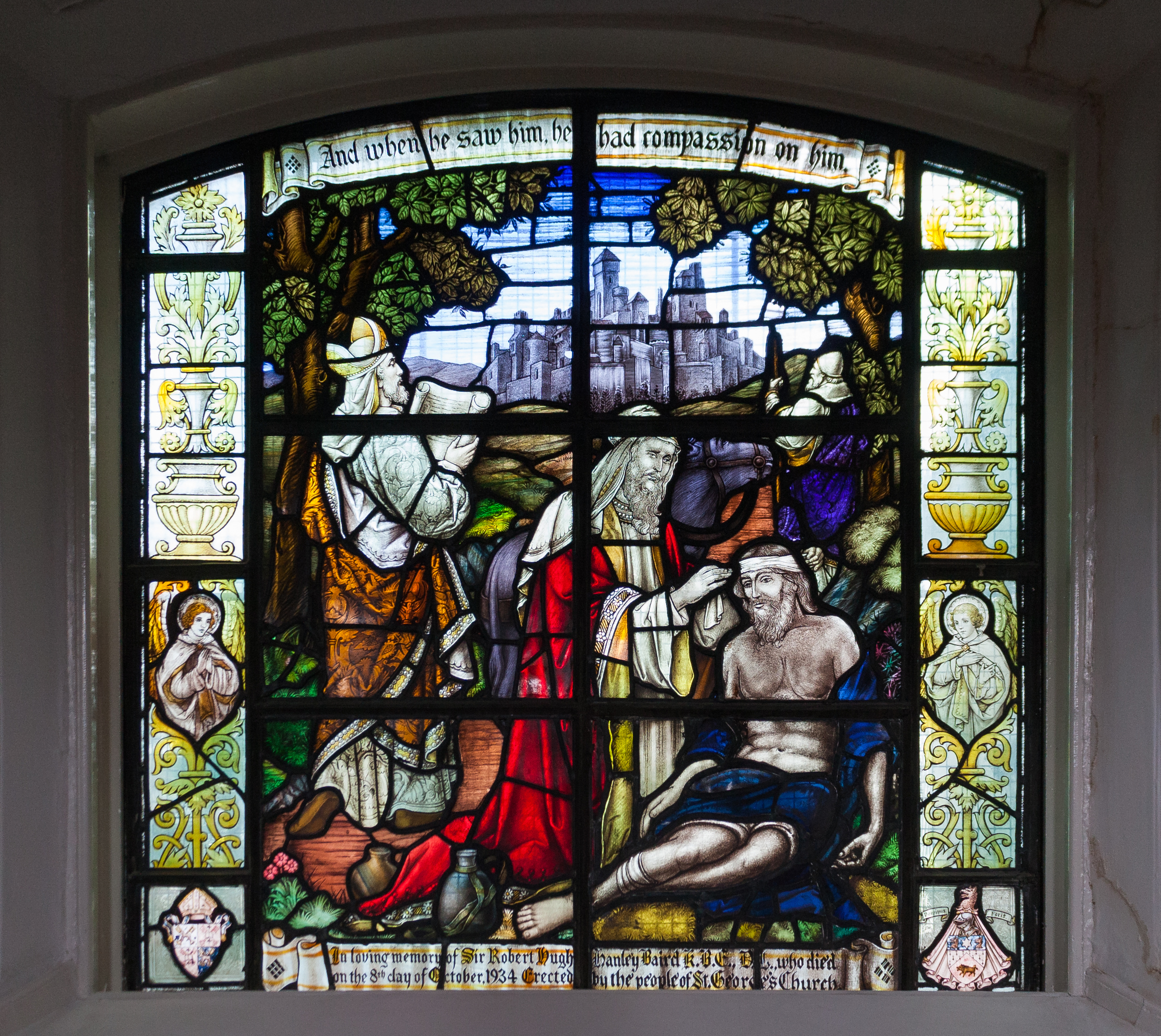 Stained glass window in the north wall of the nave, created by Clokey & Co., Belfast, and installed in 1935. However, according to gloine.ie, the window was “much altered by many intrusions”. In July 1973, the window was severely damaged due to two bombs close to the church. The window is titled with a quote of Luke 10:33 “And when he saw him, he had compassion on him” in reference to the Good Samaritan. Transcription of the inscription at the bottom: “In loving memory of Sir Robert Hugh Hanley Baird K.B.E. D.L. who died on the 8th day of October 1934. Erected by the people of St. George's Church.” (See Brian M. Walker, A History of St George's Church Belfast, p. 116, 155.)